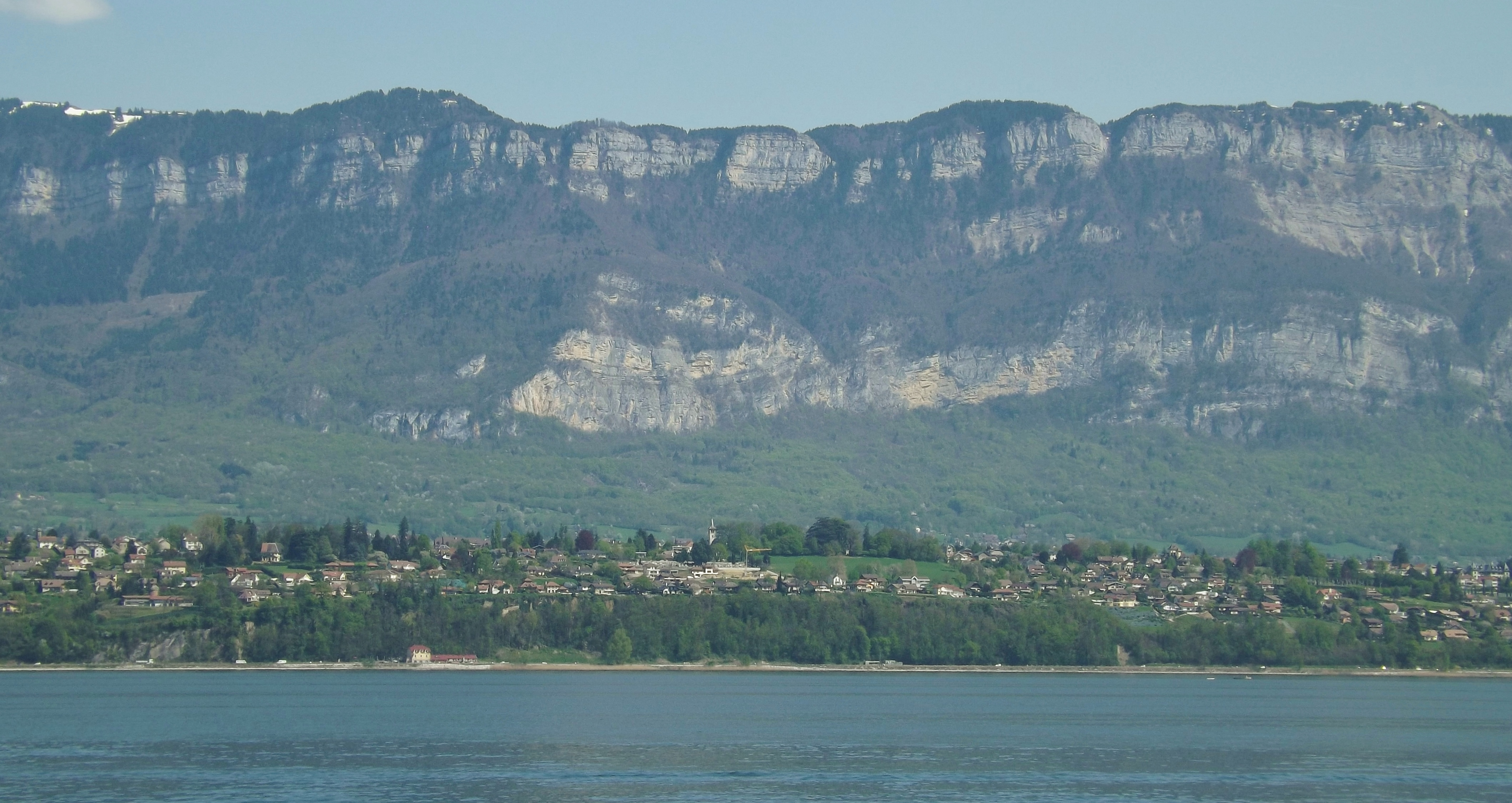 Panoramic sight of French commune of Tresserve, situated near Aix-les-Bains on the eastern coast of the lac du Bourget lake and at the foot of the Mont Revard mount, in Savoie.